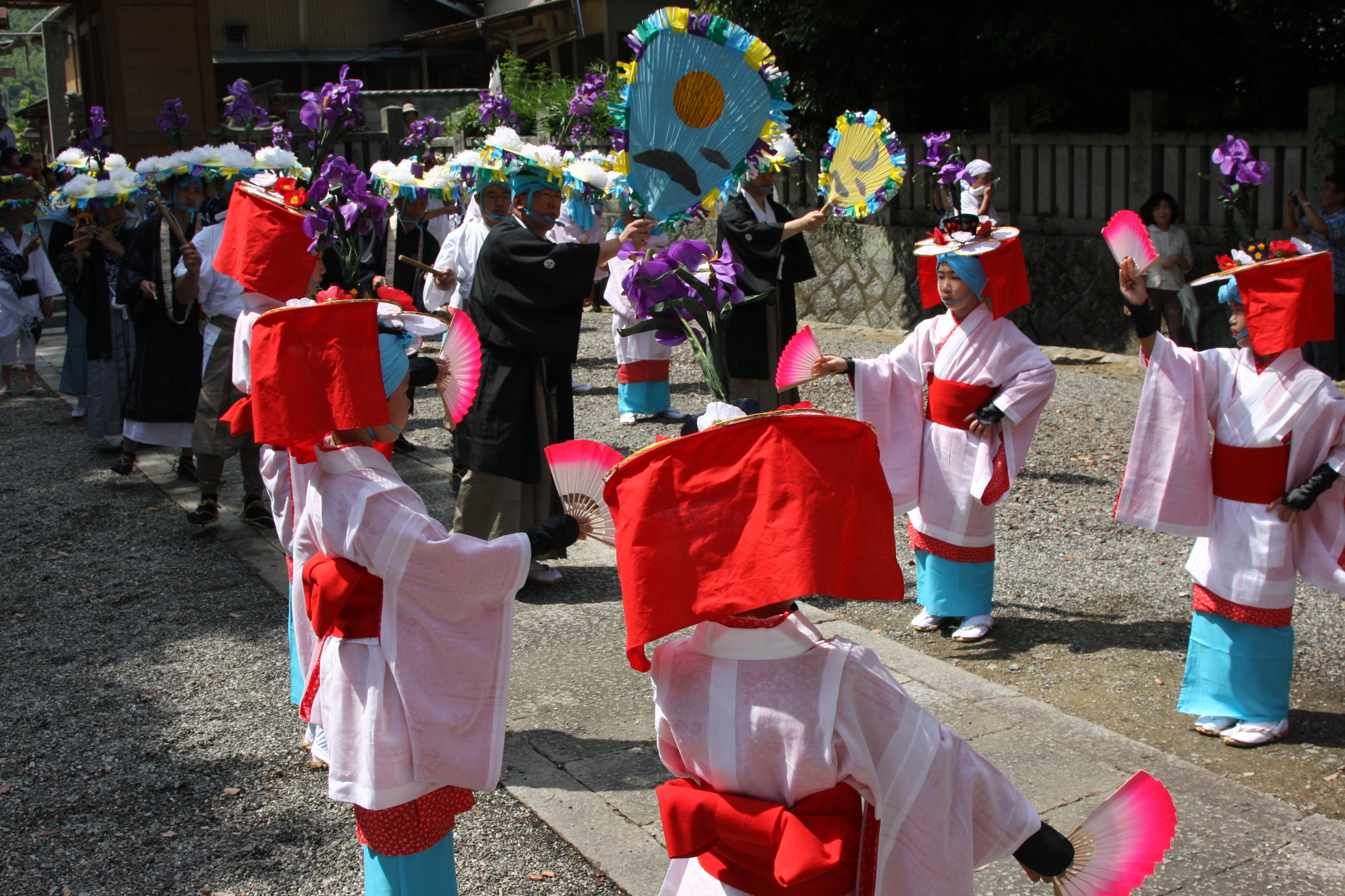 Ayako Rain Dance